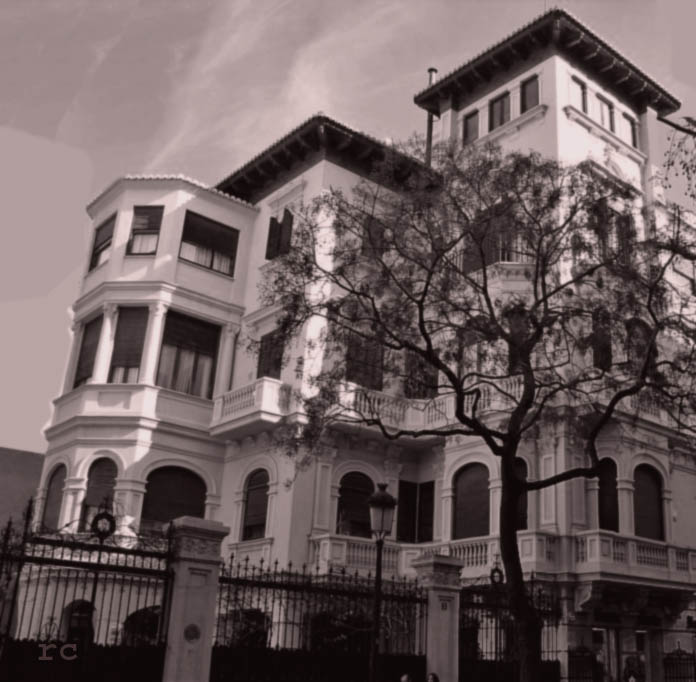 Sorni Street, 7